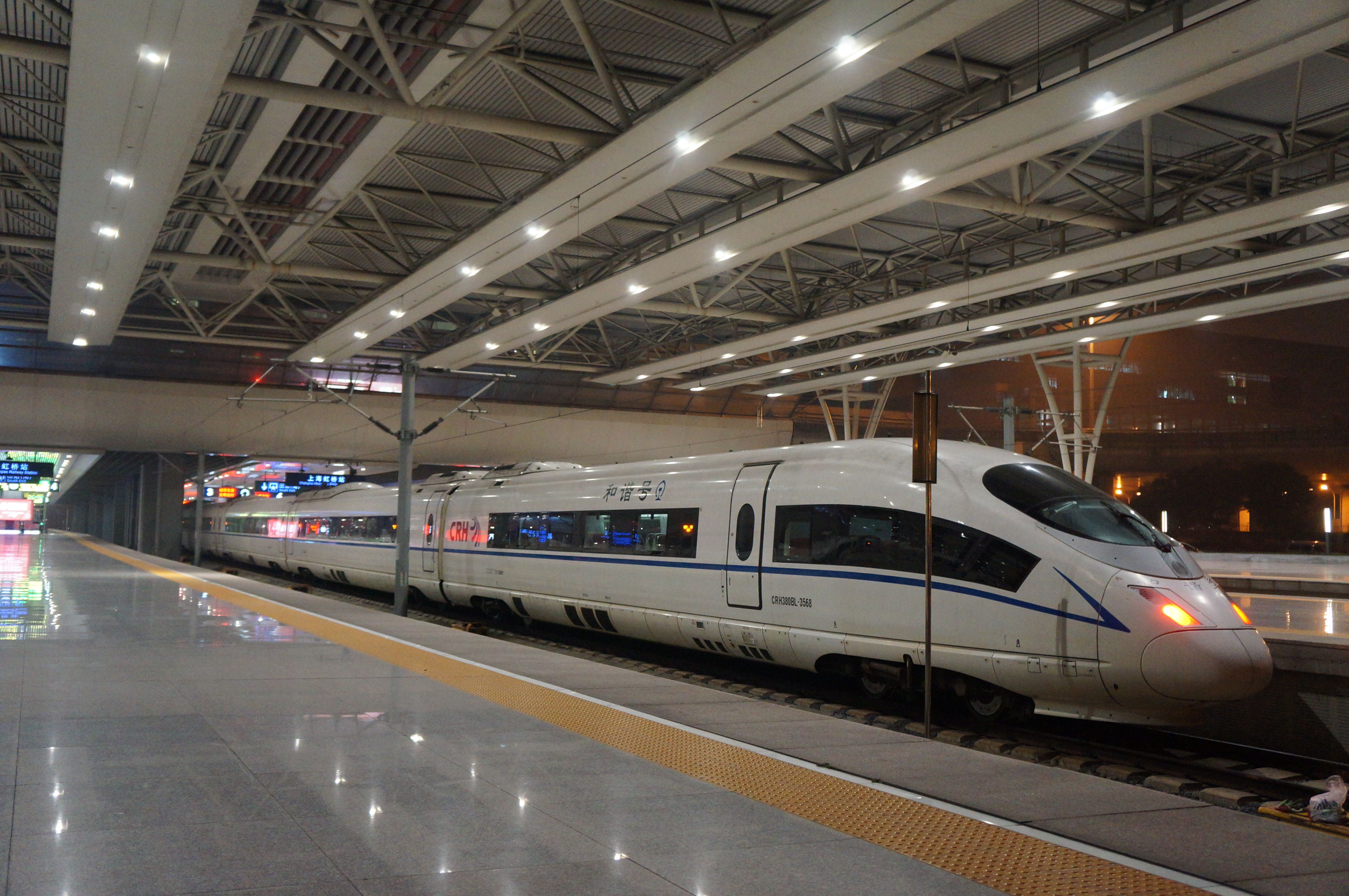 201701 G597 (Wuhan to Shanghai Hongqiao) at Shanghai Hongqiao Station, it is going to depart to depot